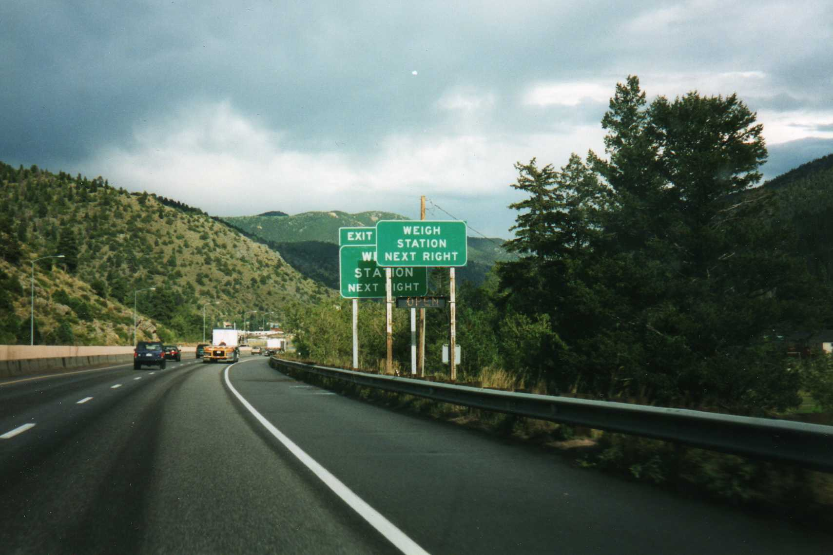 Road sign indicating upcoming weigh station, on I-70 in Colorado.